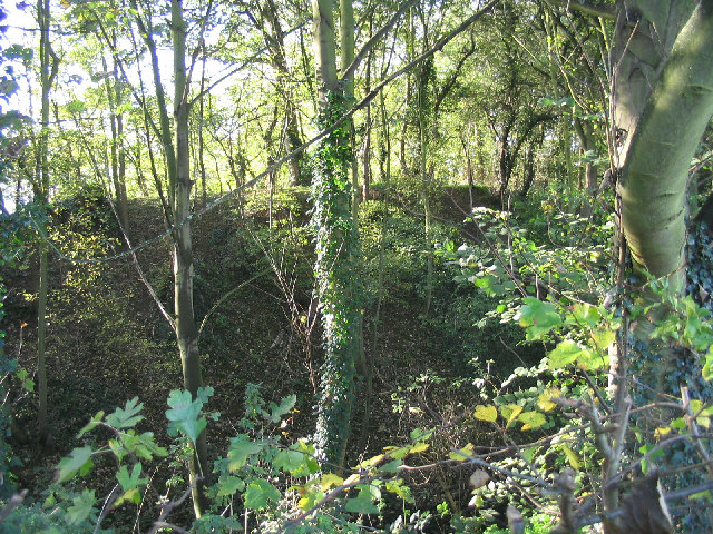 Ongar Castle, Essex. Although this may look like a photograph of woodland, it is the best shot I could get of the 'motte & bailey' castle, which situated on the east side of Ongar High Street.